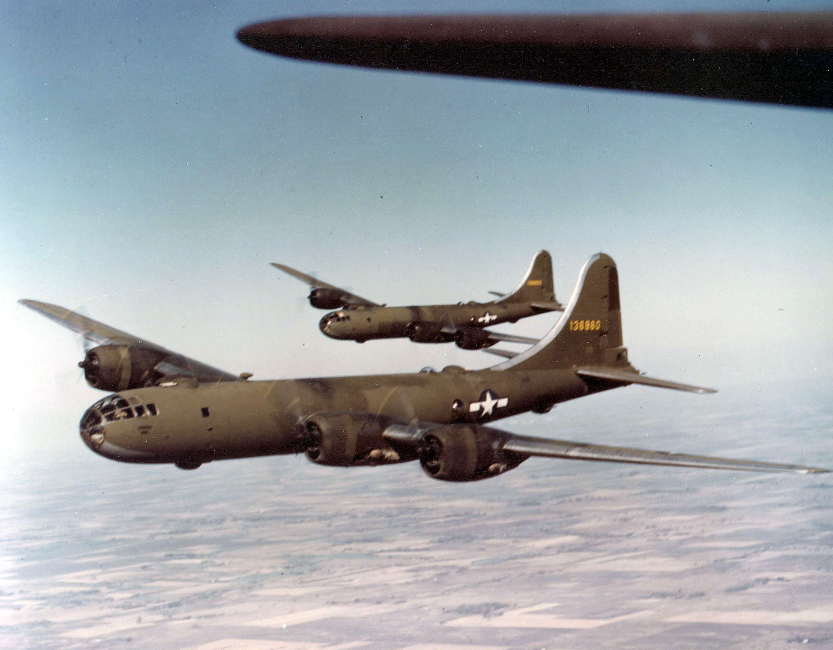 Rare color photograph of olive-drab painted B-29 superfortress [1]